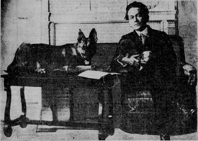 Royal Dixon, animal rights activist in 1921